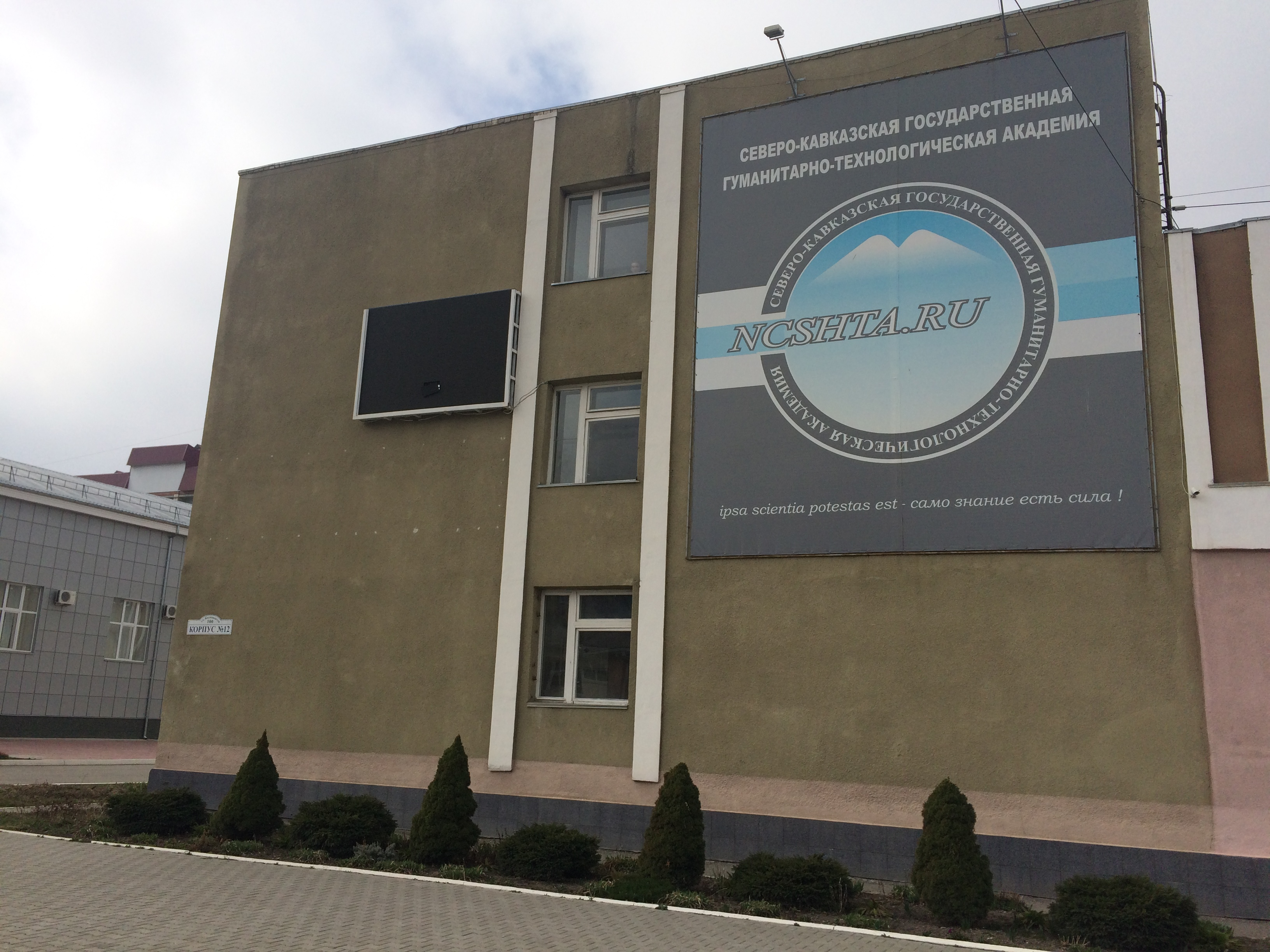 academic storee